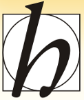 CH ZUŠ Harmonie-logo malé